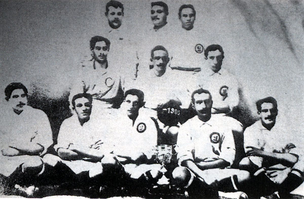 1904-1905 Madrid FC Squad